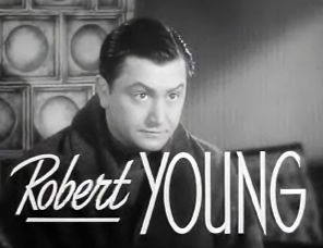 Cropped screenshot of Robert Young from the trailer for the film Bridal Suite.